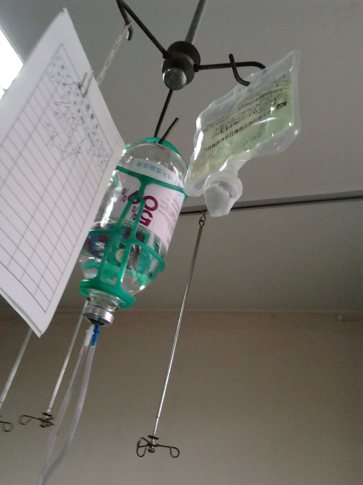 Glass IV bottle, 0.9% Sodium Chloride / 5% Glucose.